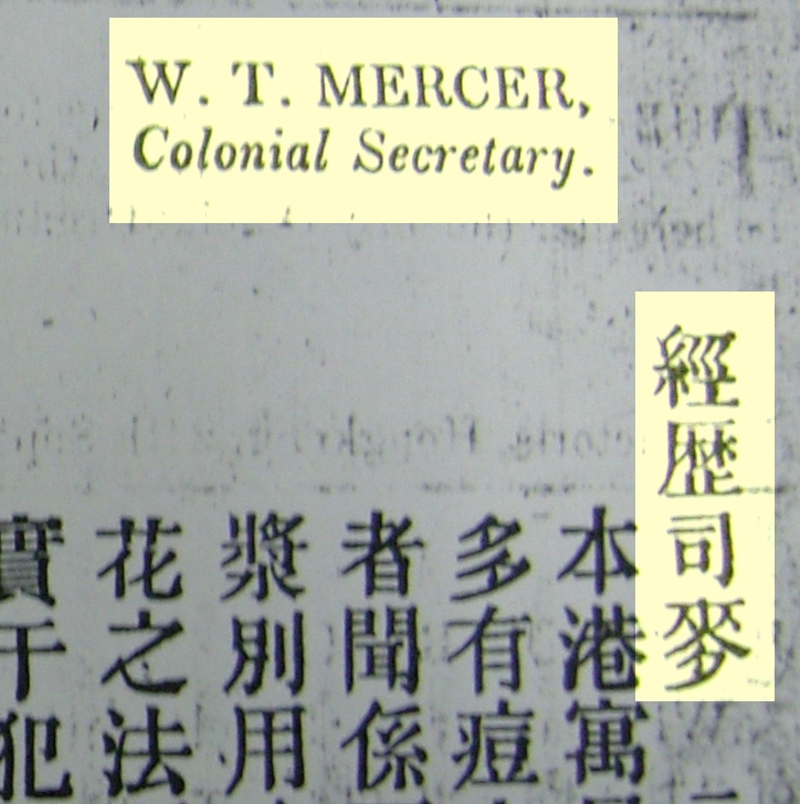 Highlight of Name of William Thomas Mercer, derived from Hong Kong Government Gazette (1855)